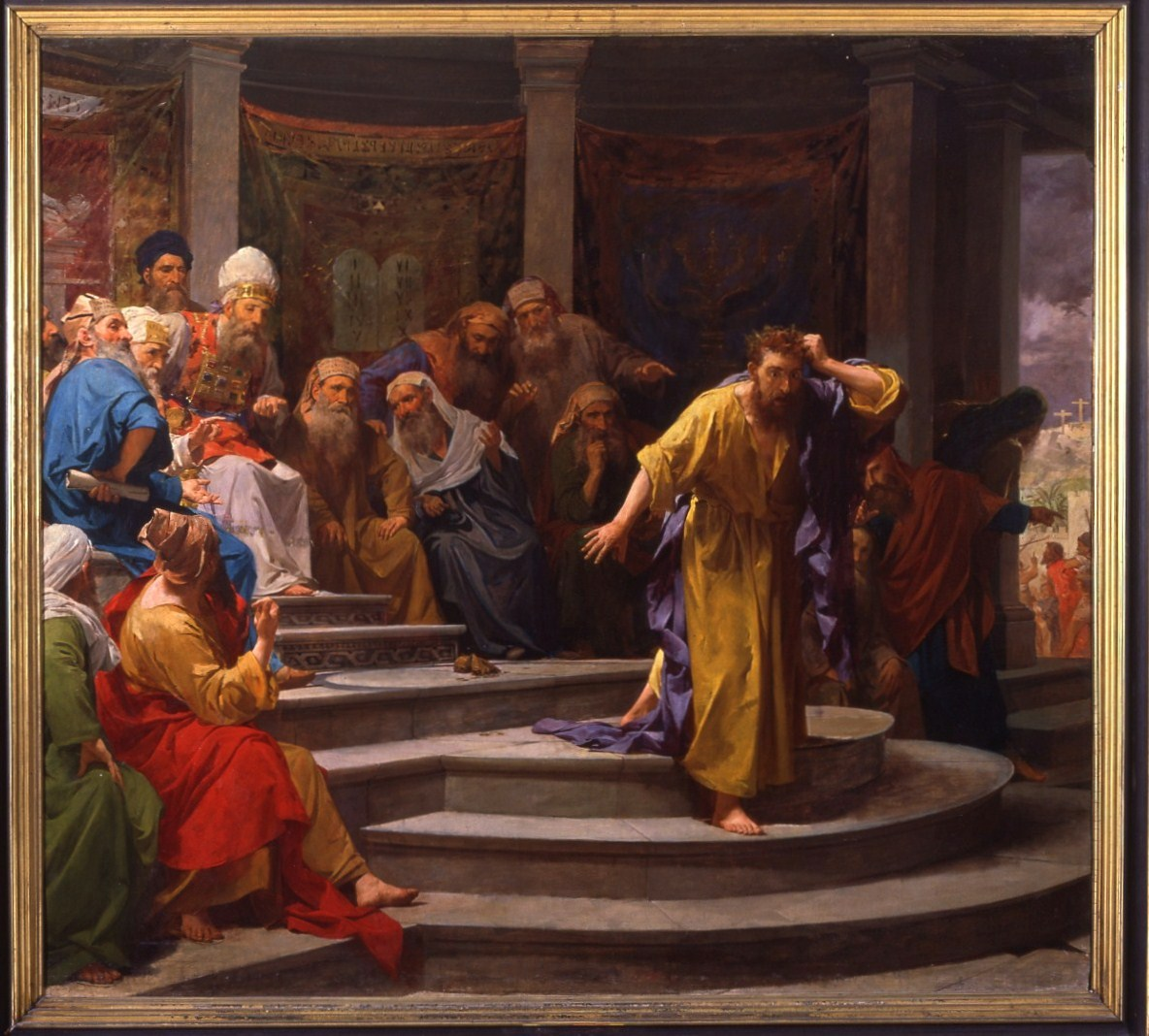 Repentance of Judas (1874), oil on canvas, 190 x 210 cm (inv. 275)